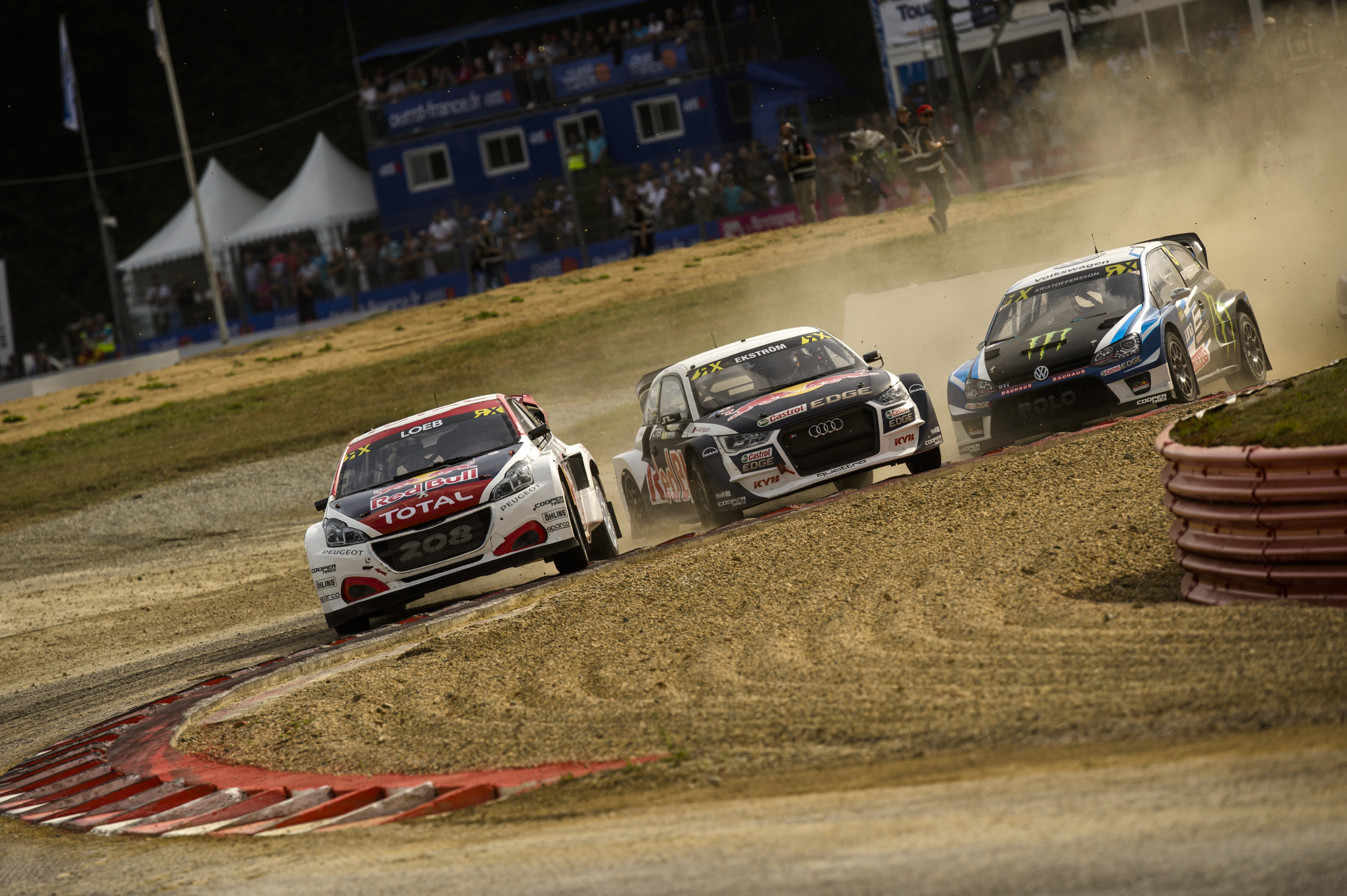 2017 FIA World Rallycross Championship // Round 09, Lohéac // Credit: EKS/Jaanus Ree